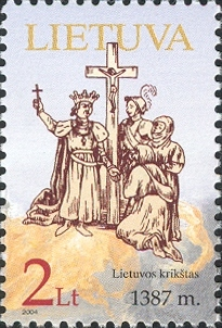 Stamps of Lithuania, 2004